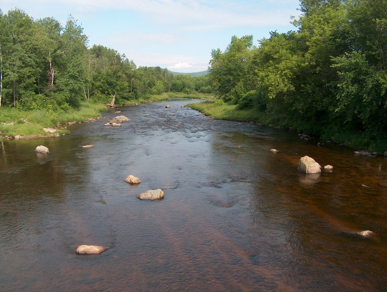 The Israel River at the center of Lancaster, New Hampshire. Photo by Ken Gallager.